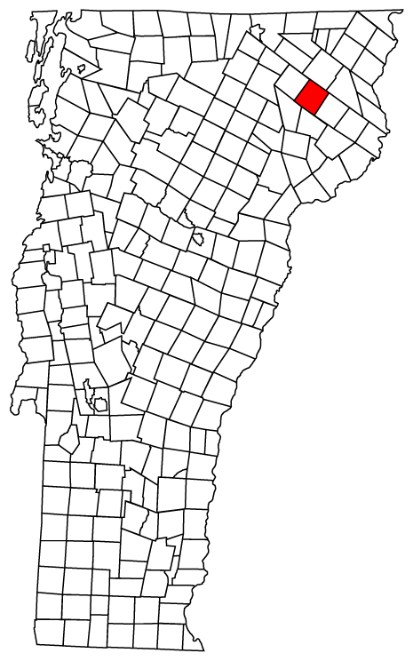 Description: Map of Vermont towns with Newark highlighted Source: Map created by Jared C. Benedict on 26 March 2004. Copyright: © Jared C. Benedict.